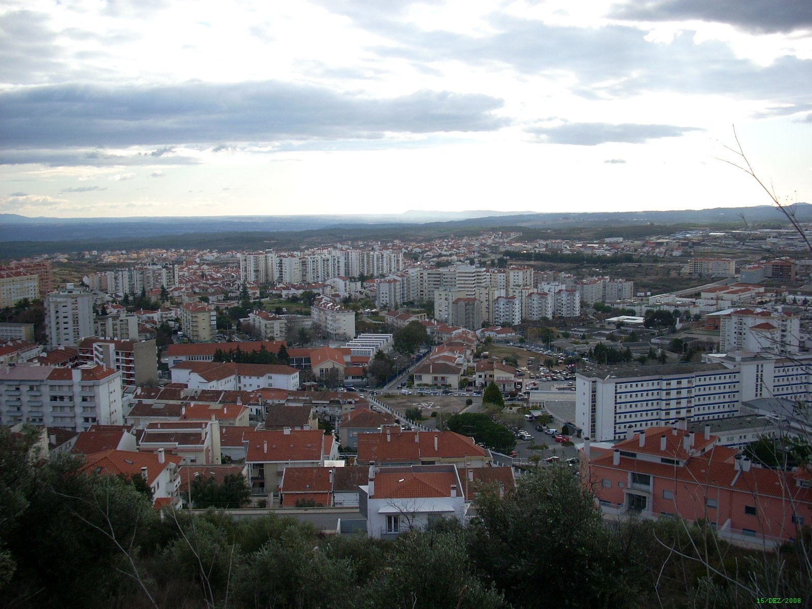 Castelo Branco City